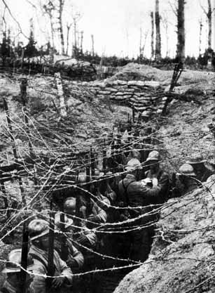 Primitive French trenches at World War I